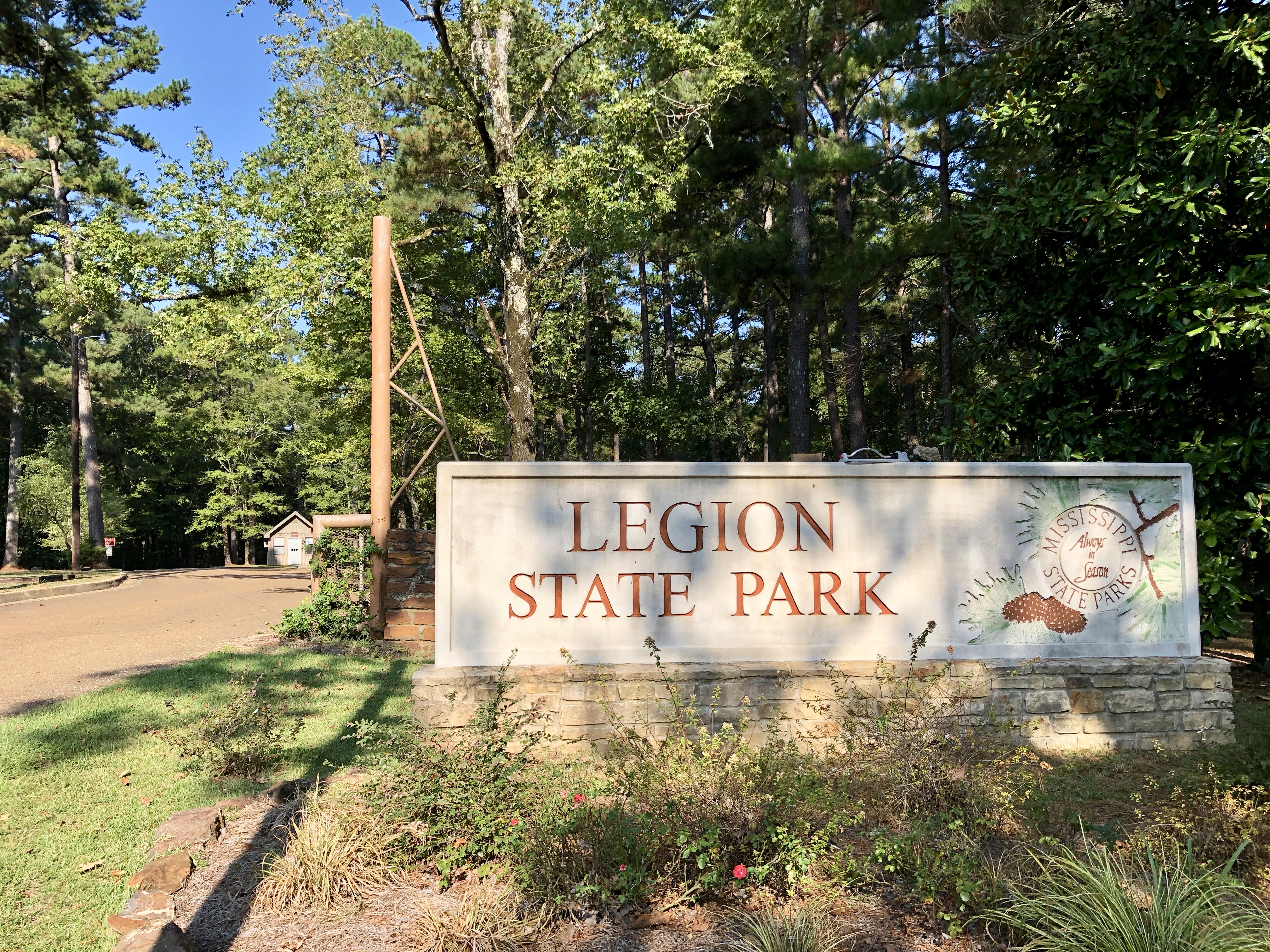 420 acre State Park and recreation area north of Louisville.